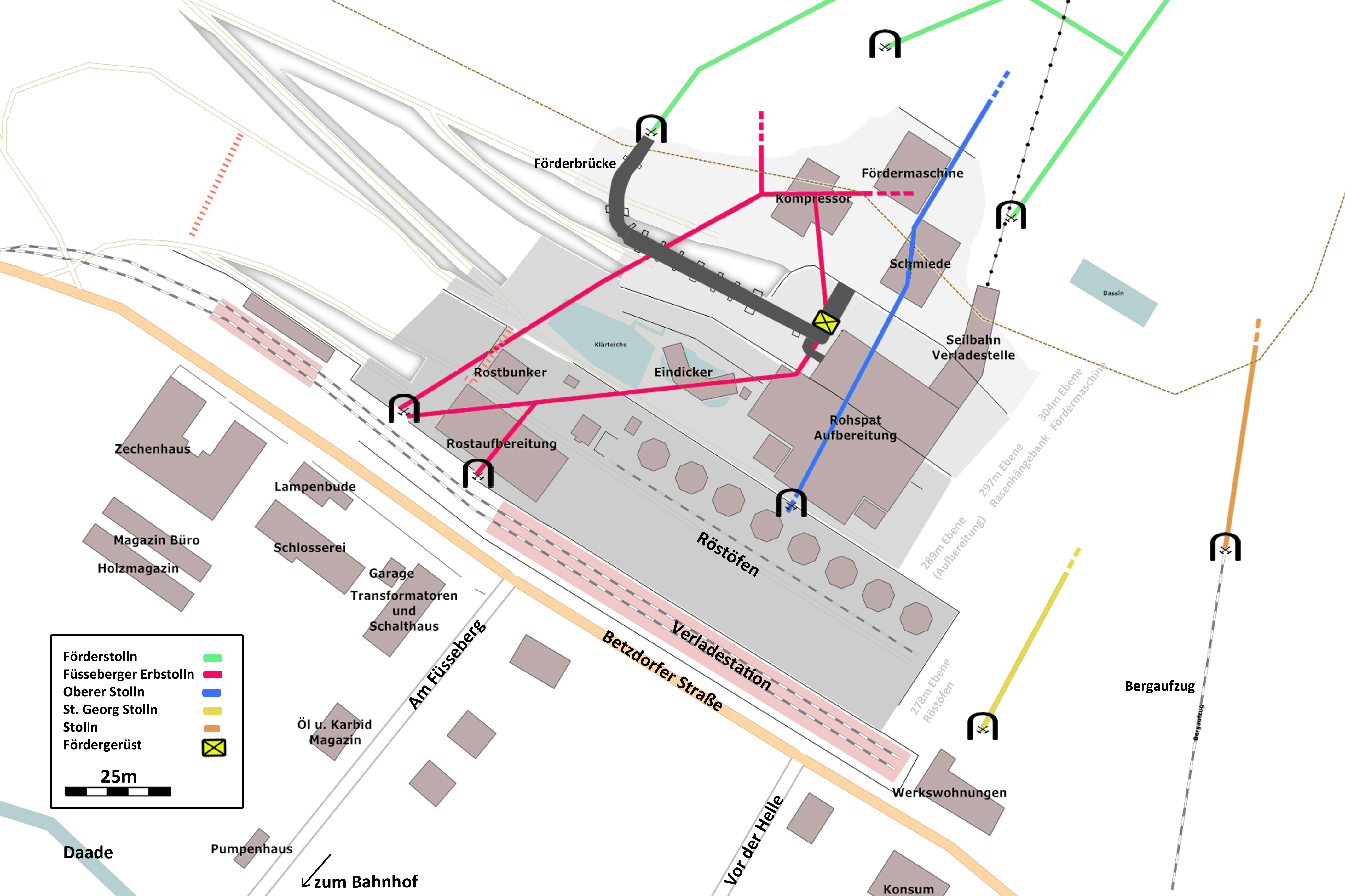 Map of Füsseberg mine. Lines in bold colours are adits. The yellow square denotes the position of the headframe.